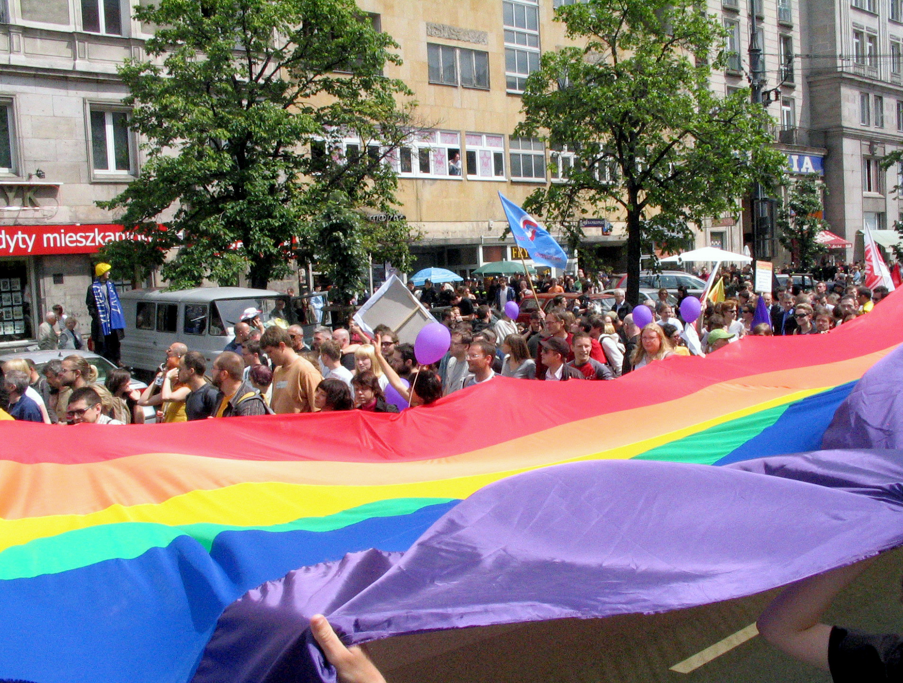 Parada Równości 2006 in Warsaw.